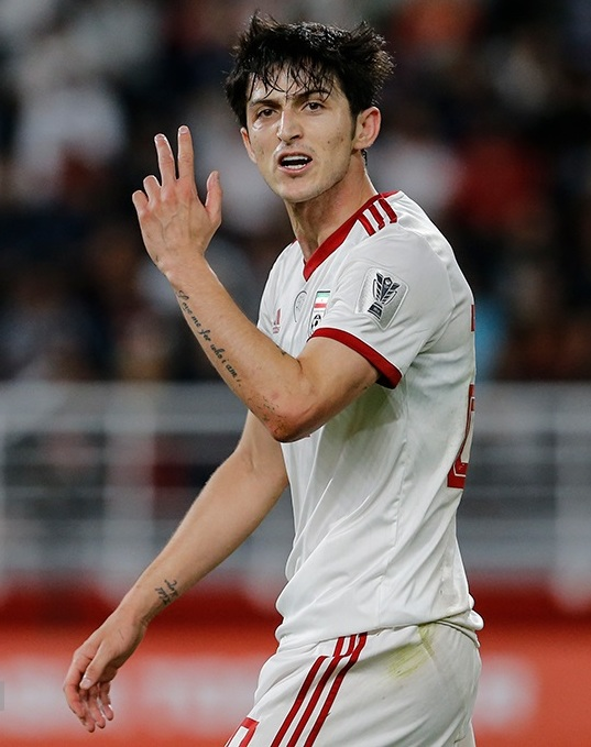 Iran-Oman Round of 16, 2019 AFC Asian Cup